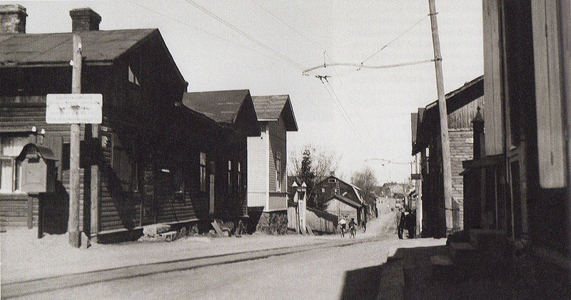 Suurkatu street in the district of Kolikkoinmäki, Vyborg, Finland.